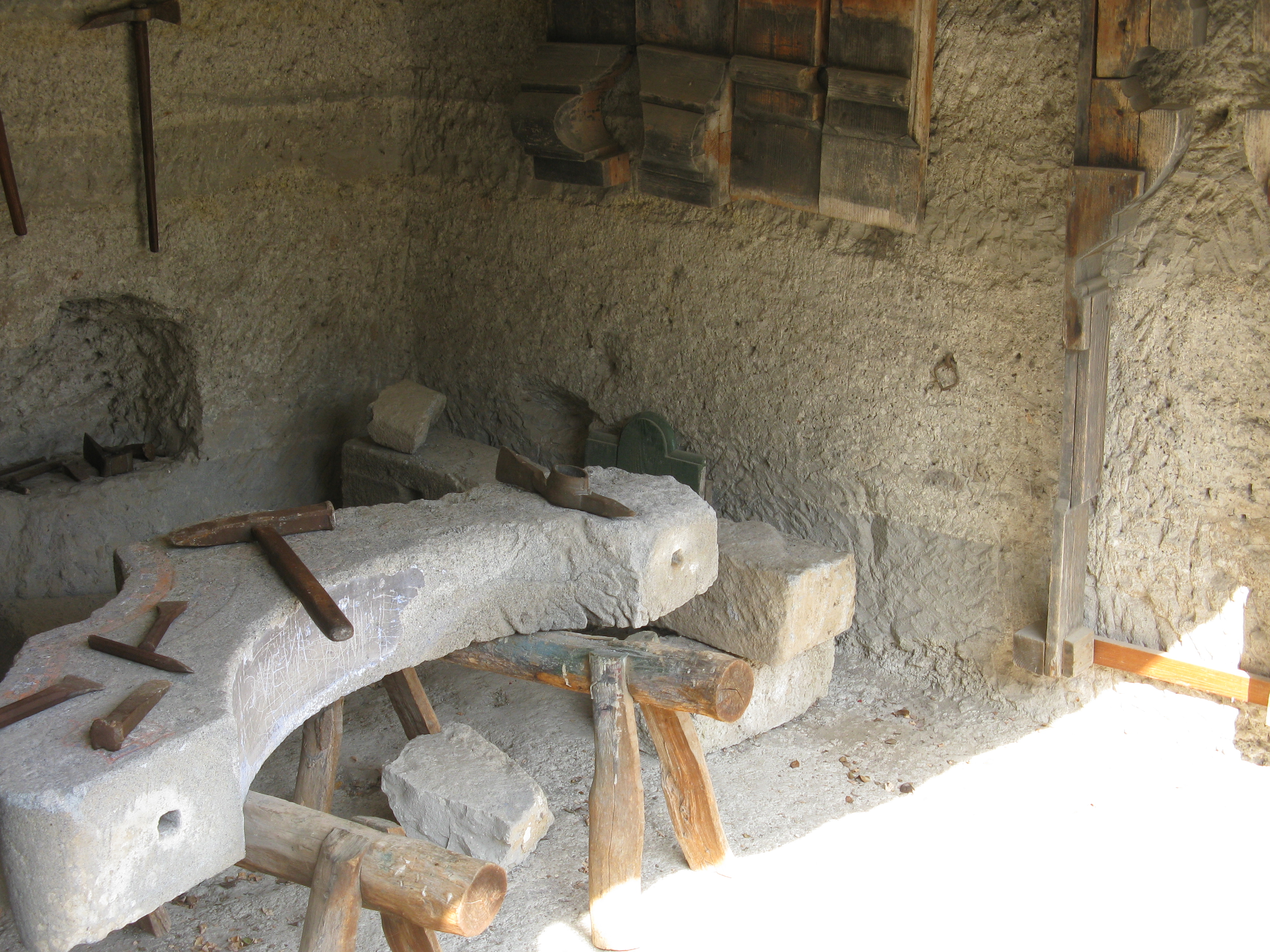 Village Brhlovce